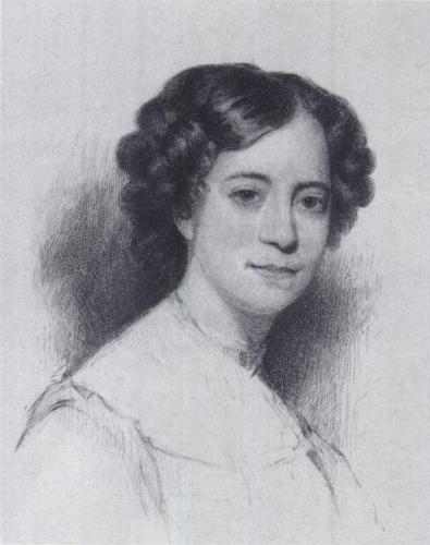 Sophia Peabody Hawthorne (1809–1871)